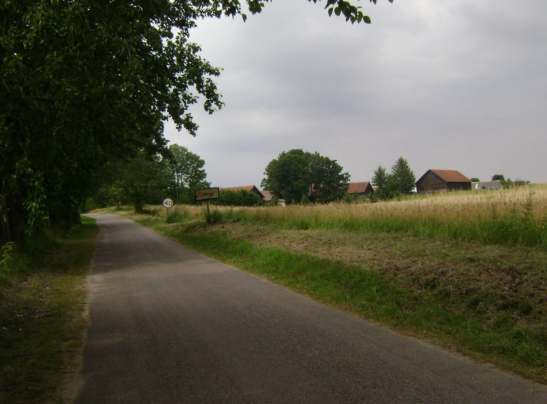 Jurgi